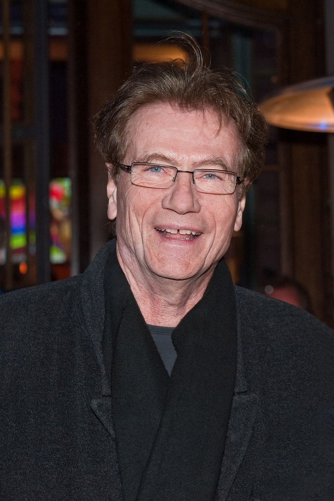 German actor Jürgen Prochnow at the ARD DEGETO Blue Hour Party 2010